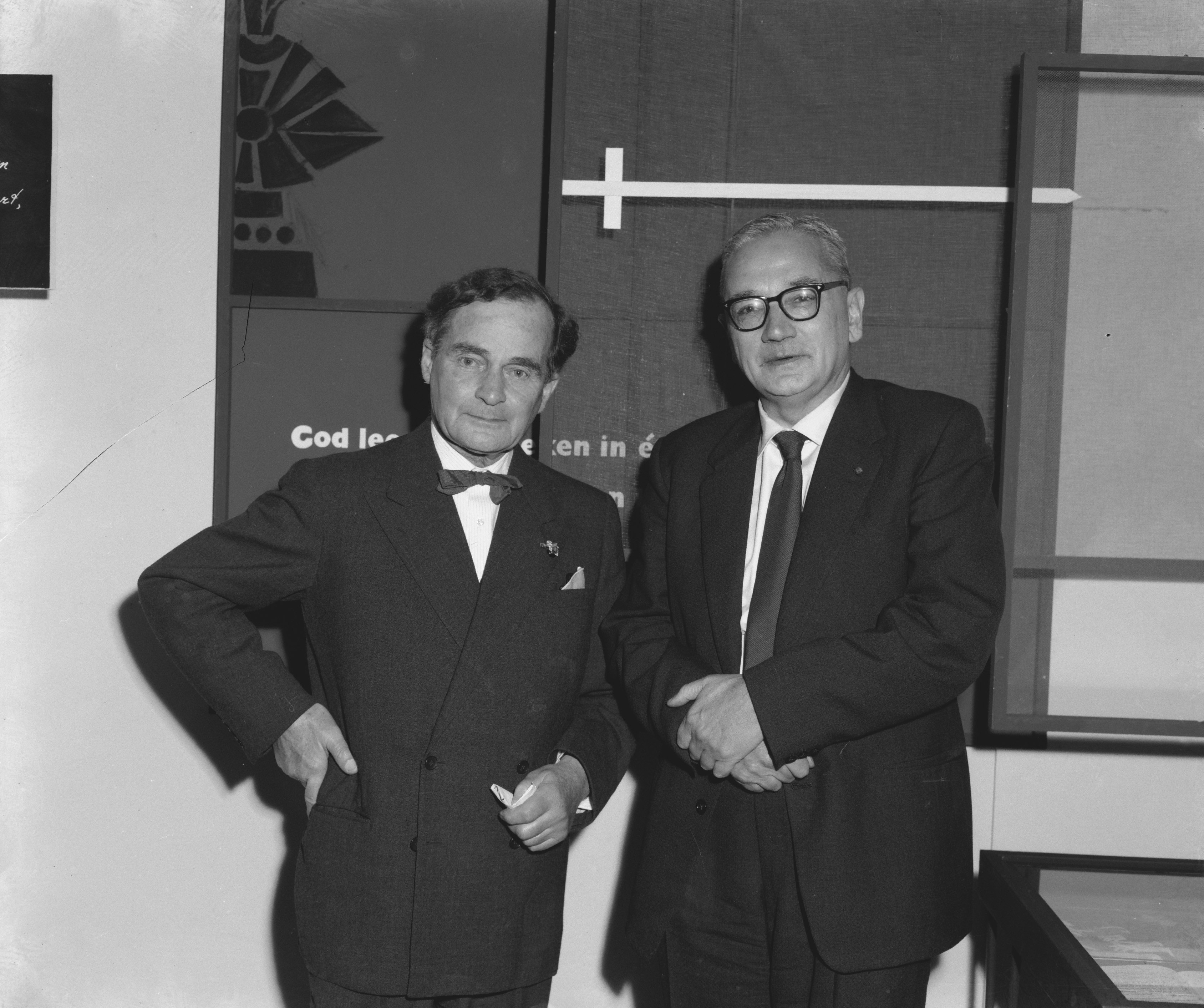 Adriaan Roland-Holst & Simon Vestdijk. Opening exhibition Gemeentemuseum Den Haag (NL), 7 November 1958